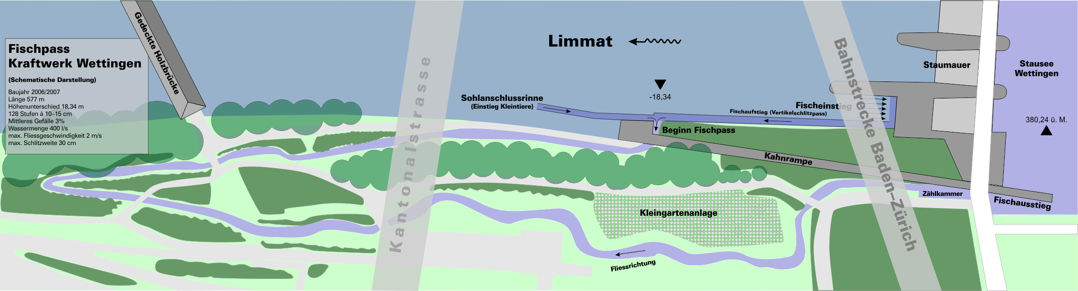 Fish ladder near Wettingen, Switzerland